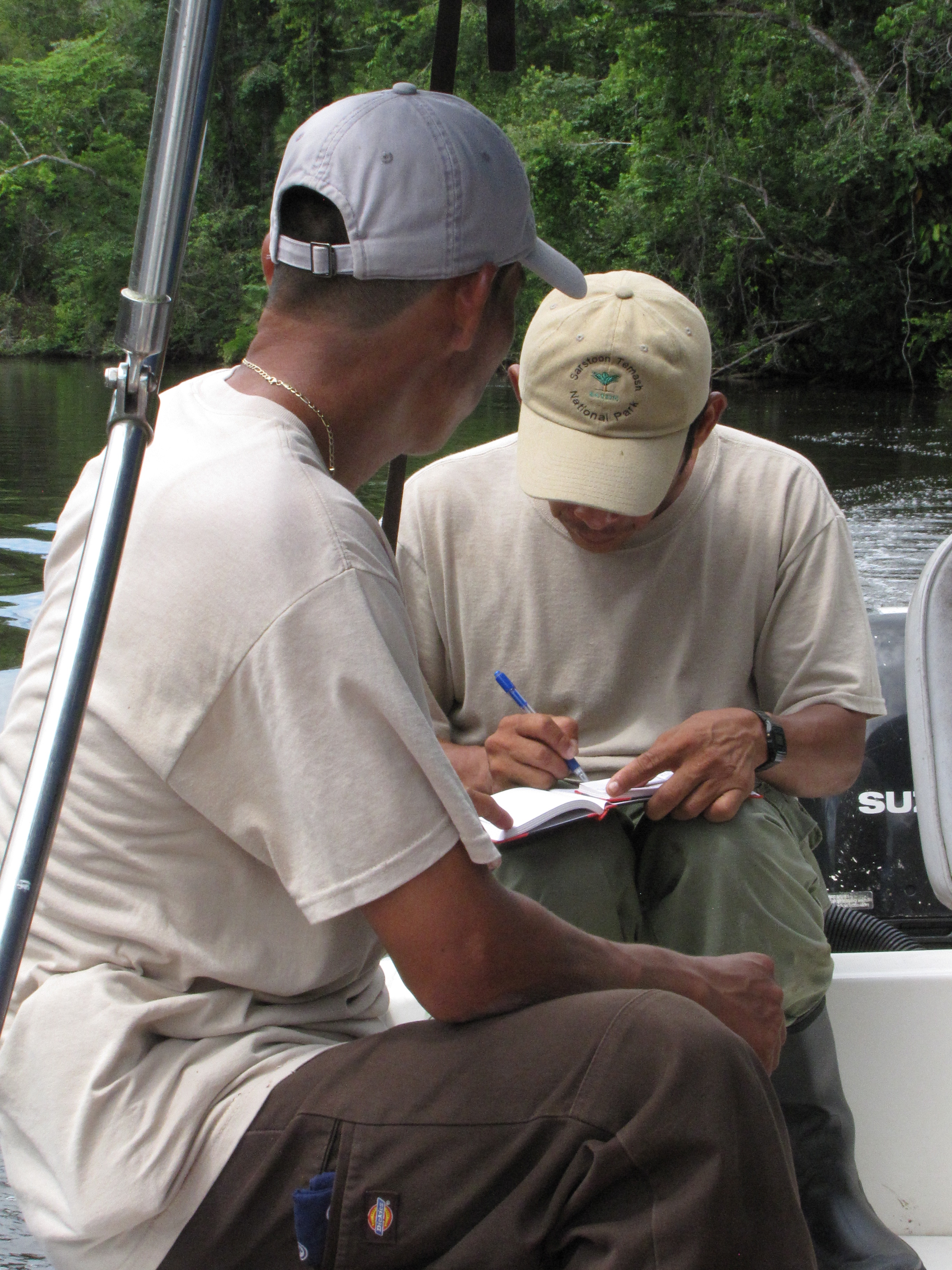 Rangers Marcos Makin & Anasario Cal on patrol in Sarstoon Temash National Park